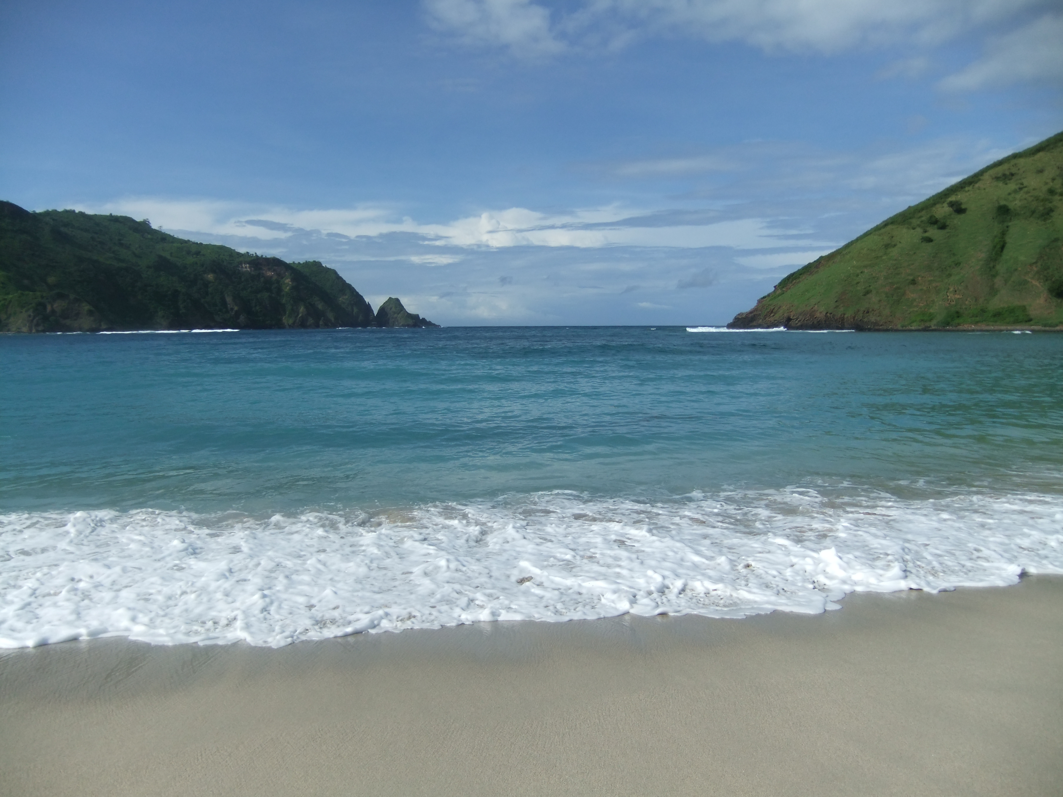 Mawun Beach, South Lombok, Indonesia